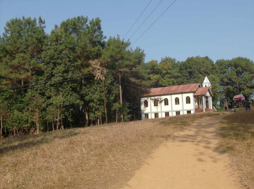 Old structure of Umbir Presbyterian Church.